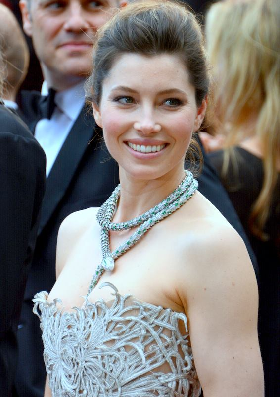 Jessica Biel at the Cannes film festival